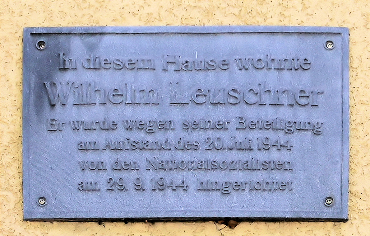 Memorial plaque, Wilhelm Leuschner, Bismarckstraße 84, Berlin-Charlottenburg, Germany Koordinate:52°30′41″N 13°18′23″E / 52.51139°N 13.30639°E